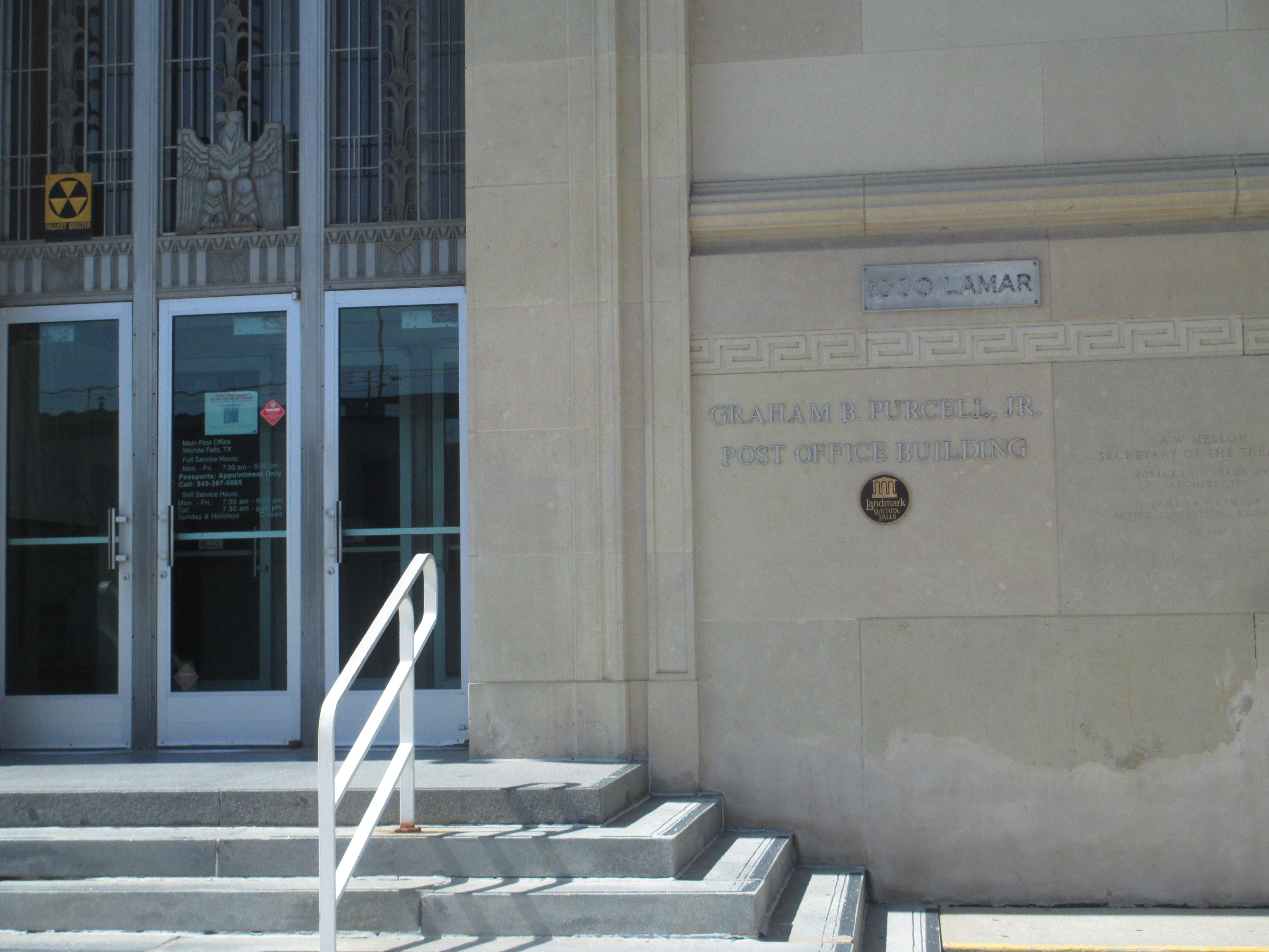 I took photo of Graham B. Purcell, Jr., Post Office on Lamar St. in Wichita Falls, TX, with Canon camera, April 5, 2013. Billy Hathorn (talk) 21:15, 11 April 2013 (UTC)